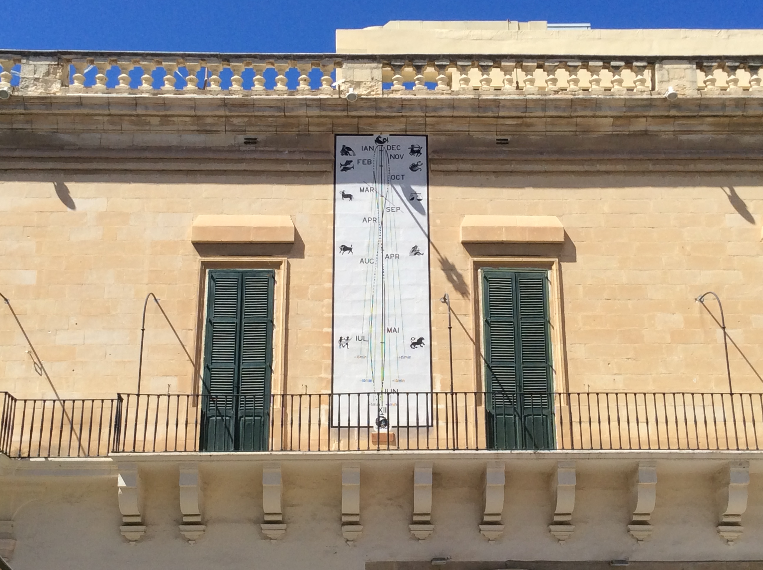 Valletta This media is about Maltese cultural property with inventory number 01572.